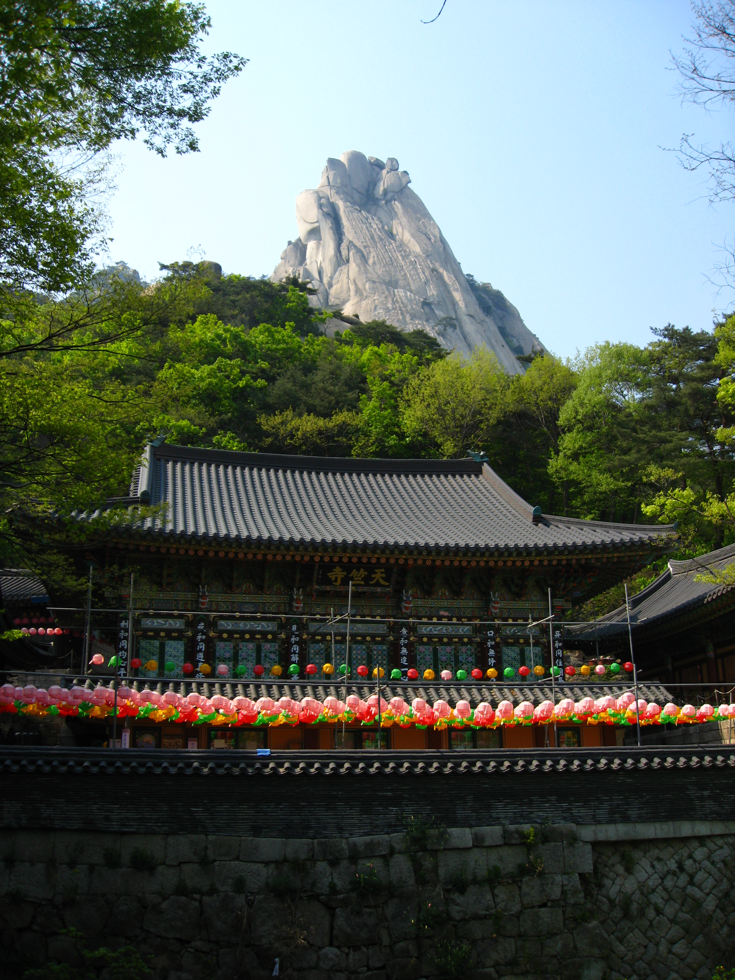 A magical temple up in the mountains in Bukhansan. We think it's called Cheonchuksa.